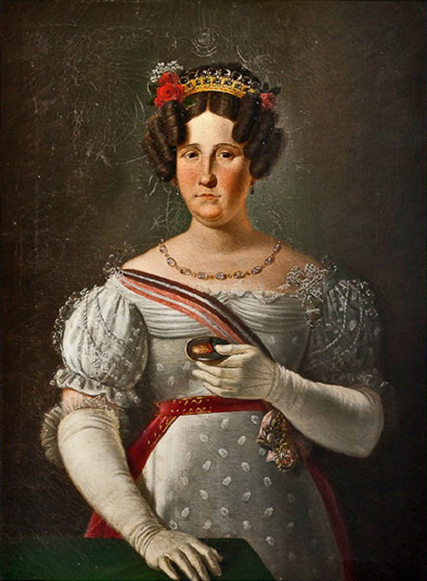 Portrait of María Isabella of Spain (1789-1848)